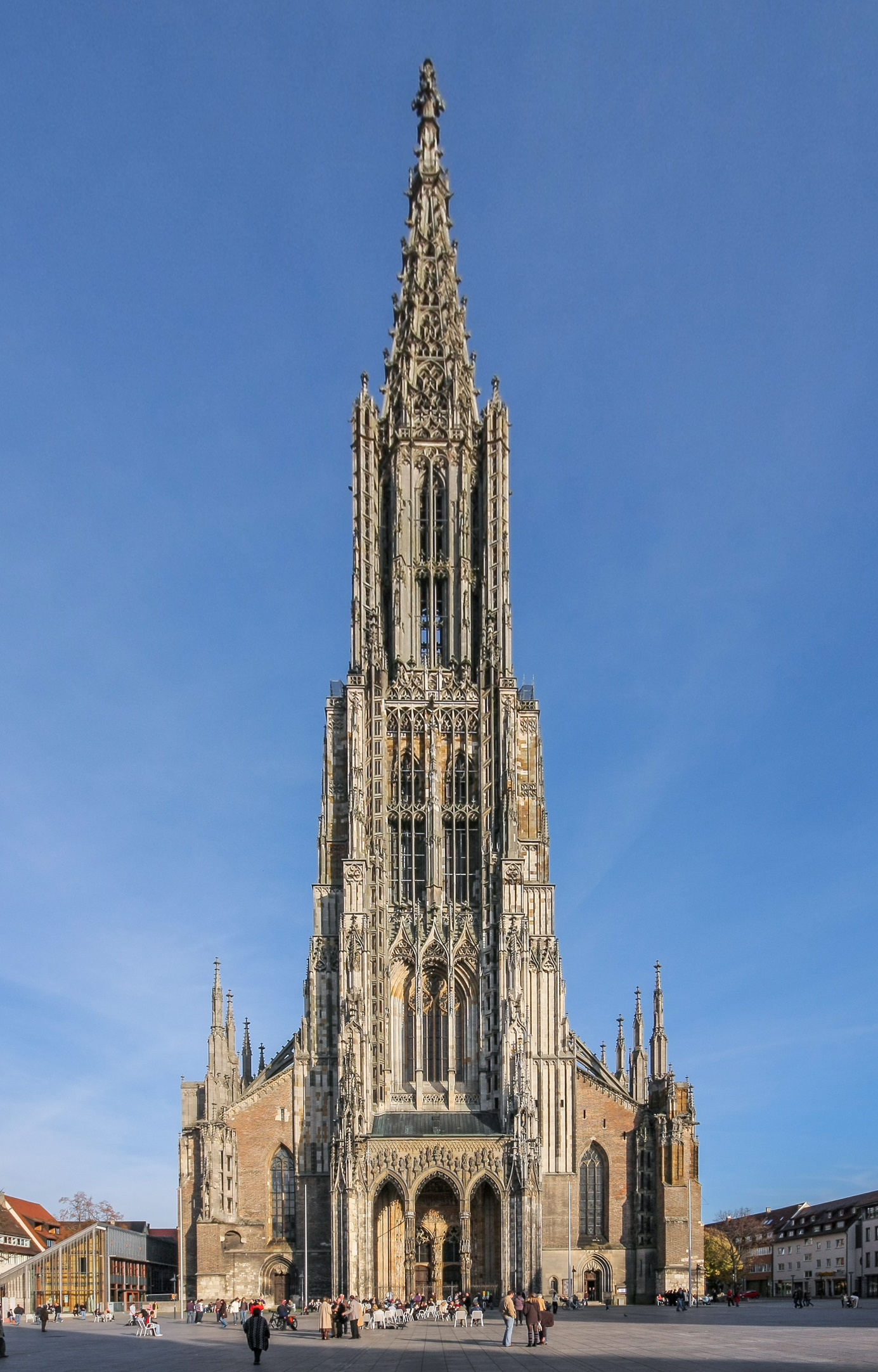 Ulm Minster